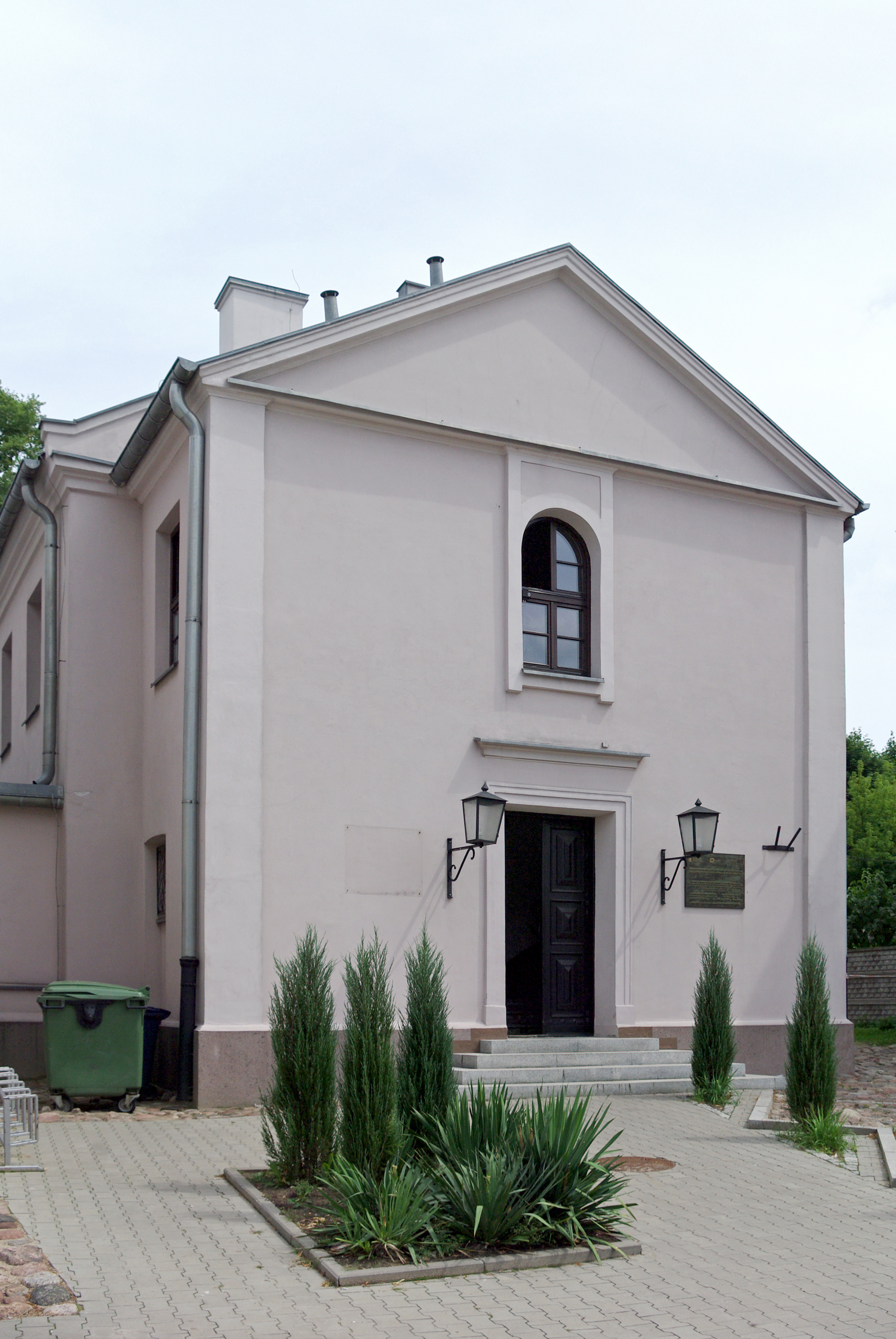 Small Synagogue in Piotrków Trybunalski